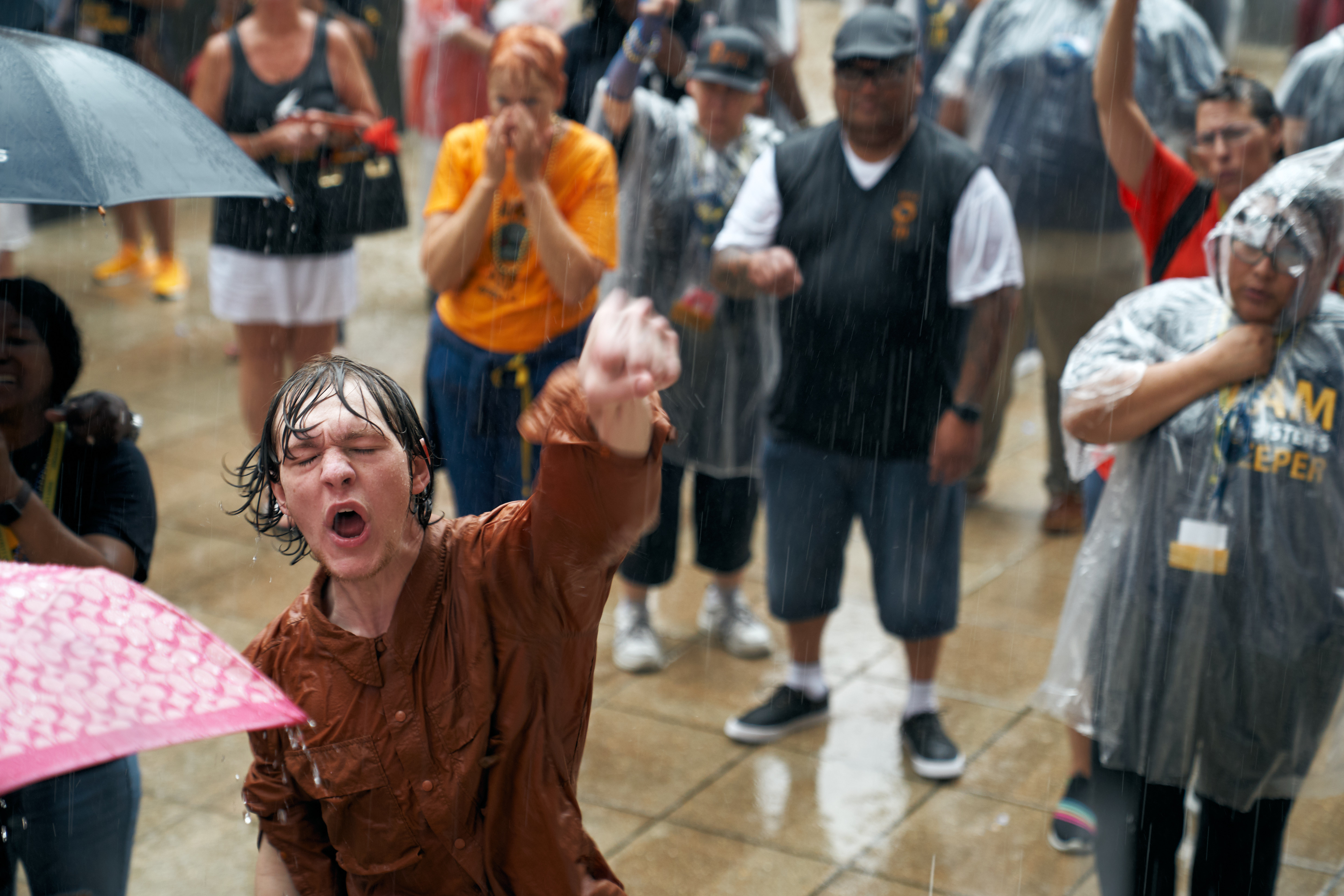 AFGE leaders and activists rally in New Orleans to reject union busting. Photo by Shaquille Dunbar